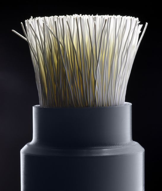 Membrane Fibres